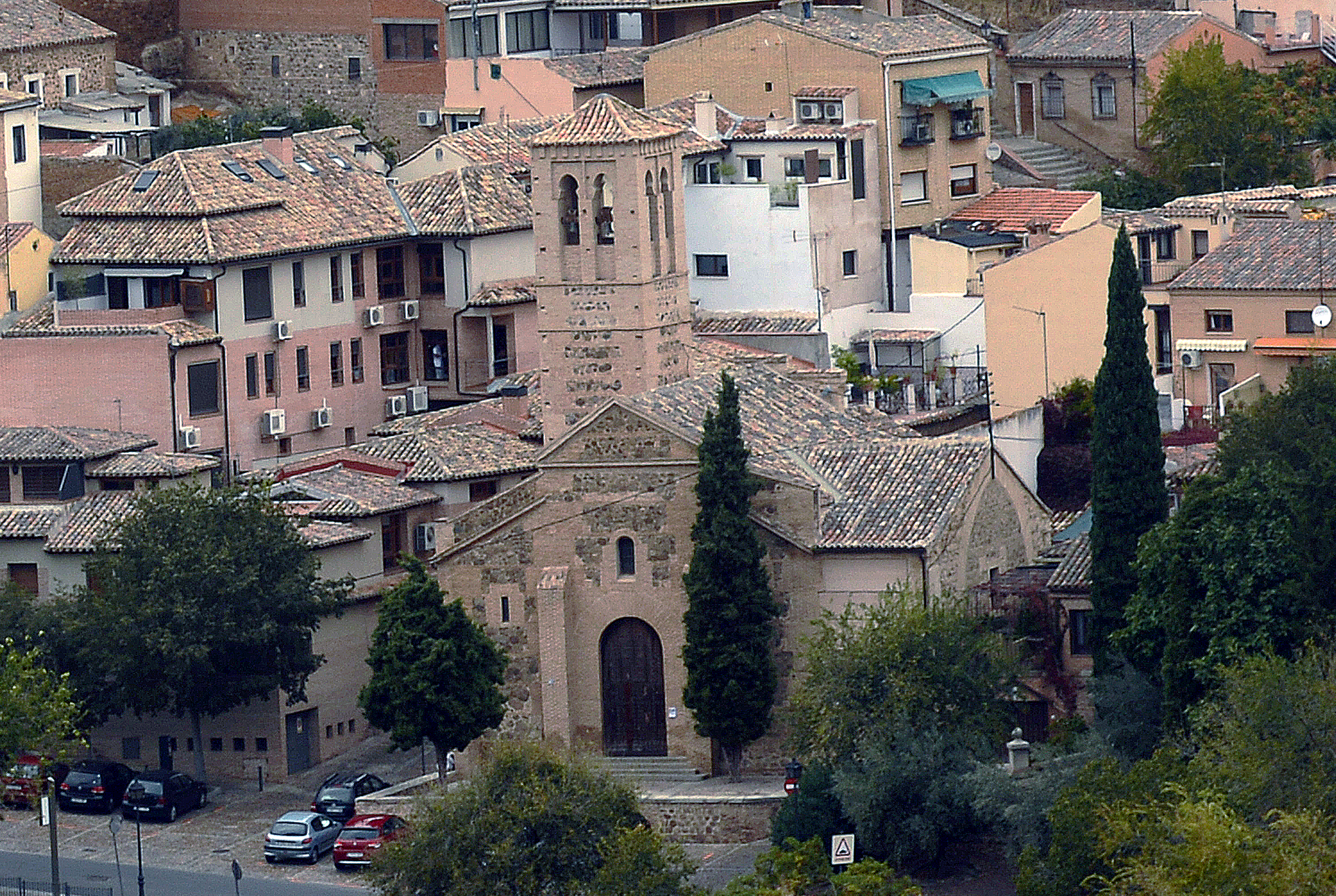 Islamic Baths of Tenerías [lower left] are located on the right bank of the river Tajo as it passes by the city of Toledo near the Iglesia Mozárabe de San Sebastián [Church of San Sebastián de las Carreras - on the right bordering Calle Carreras San Sebastián] , in the area called the "Rodaderos del Tajo" / The Baths were discovered by the archaeologists Juan Manuel Rojas and Ramón Villa